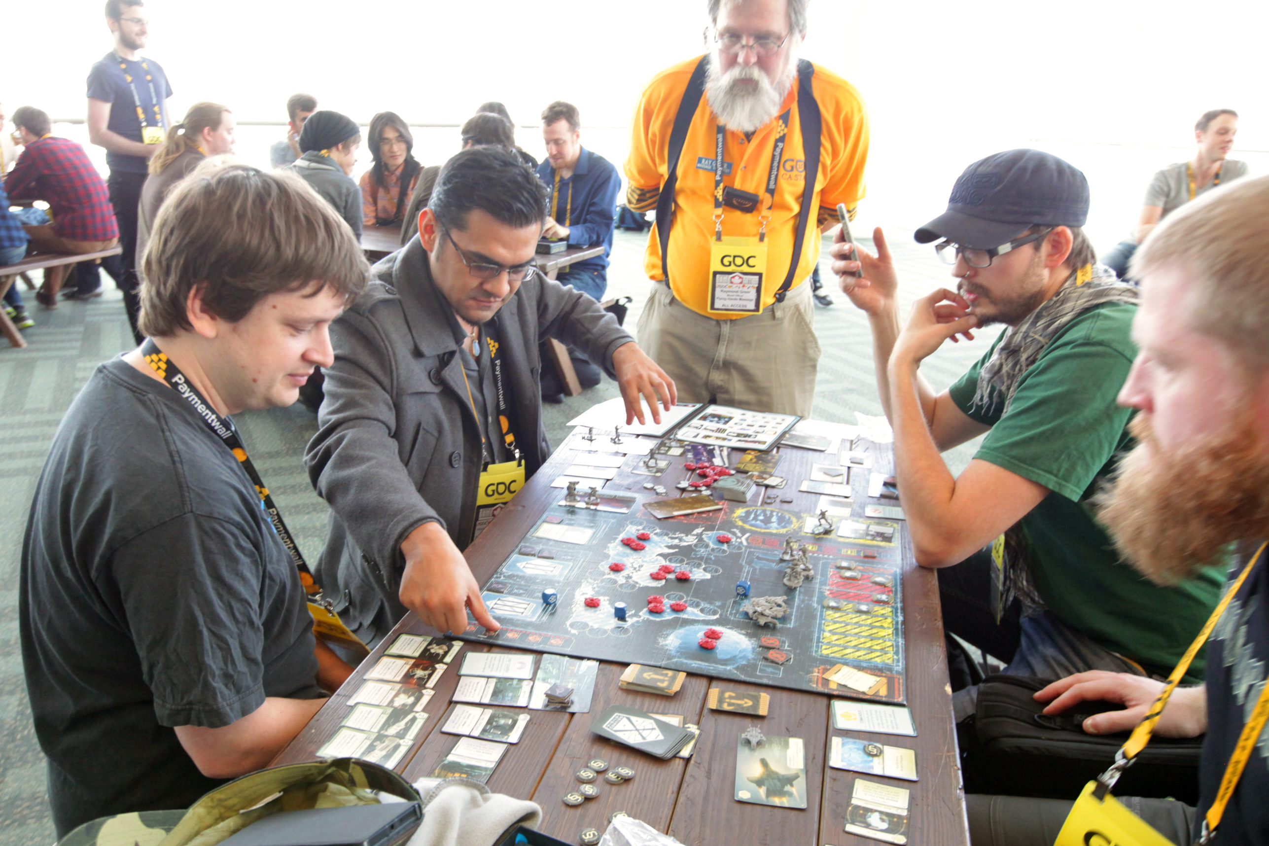 The X-Com board game being played at the 2015 Game Developers Conference